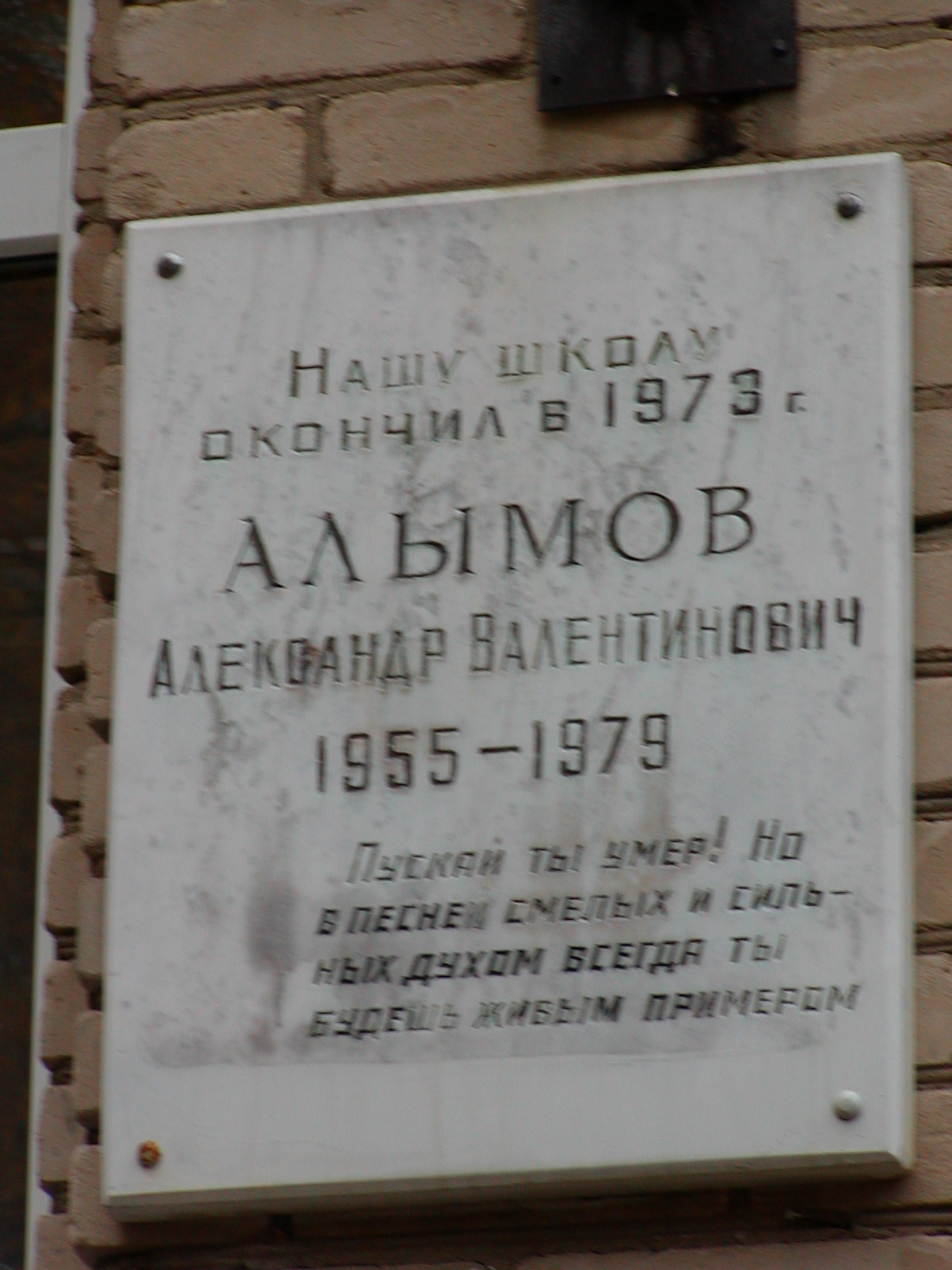 Alexander Alymov's memorial board on the Obninsk lycée's building.